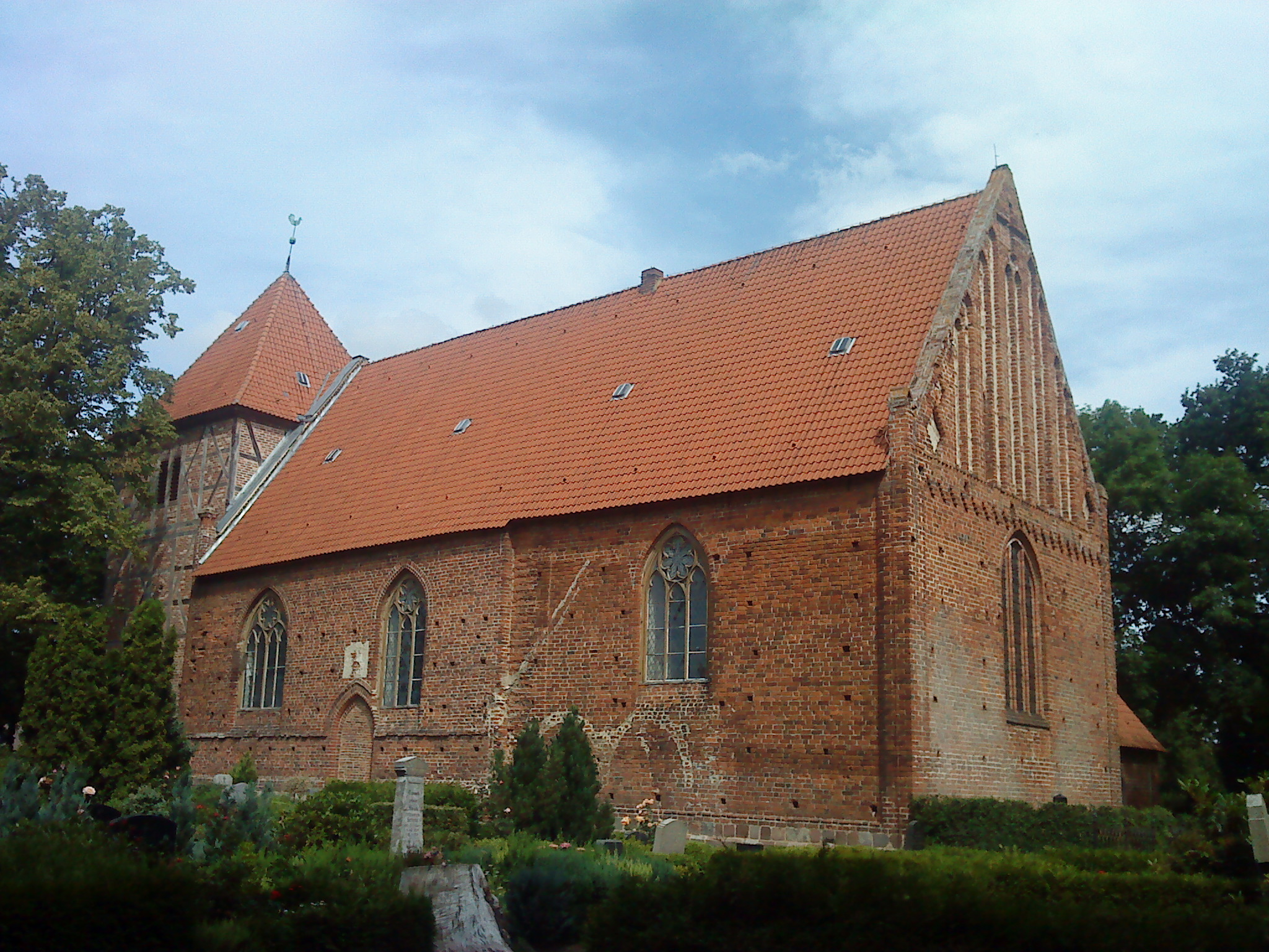 Church of Neuenkirchen, Landhagen, Ostvorpommern